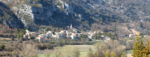 the village of Monnieux, France